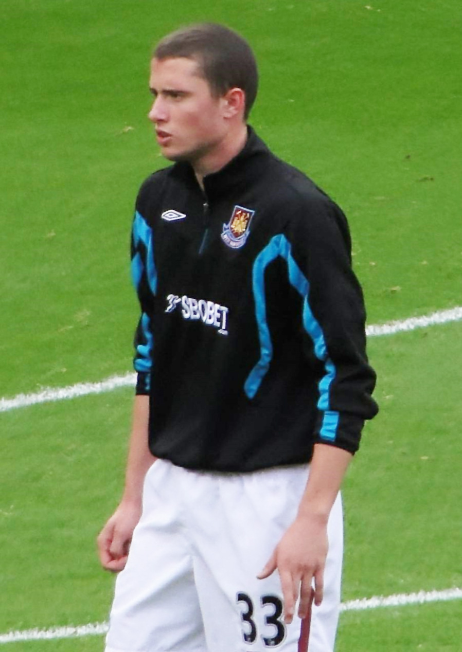 West Ham's Fabio Daprelà warming-up before their game against Everton, 8/11/2009